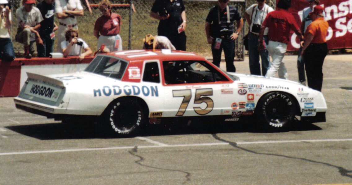 The RahMoc Enterprises owned #75 Chevy of Neil Bonnett at the 1983 Van Scoy 500. Neil finished 7th and led 6 laps.